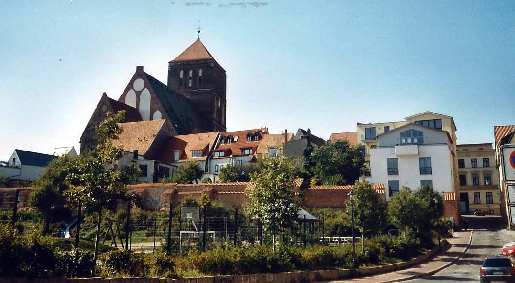 View from Gerberbruch to town wall and to church Nikolaikirche, Rostock, 2004.